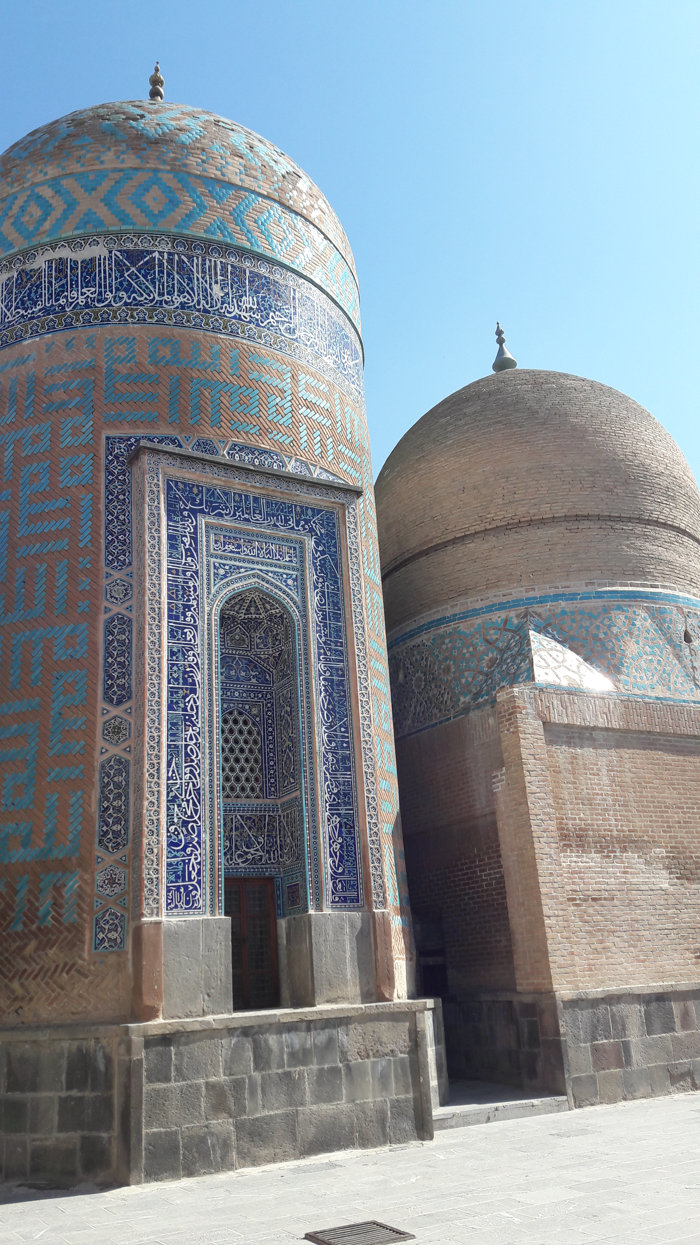 Public Photos